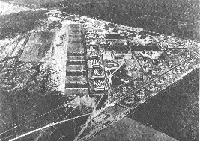 March Field, California